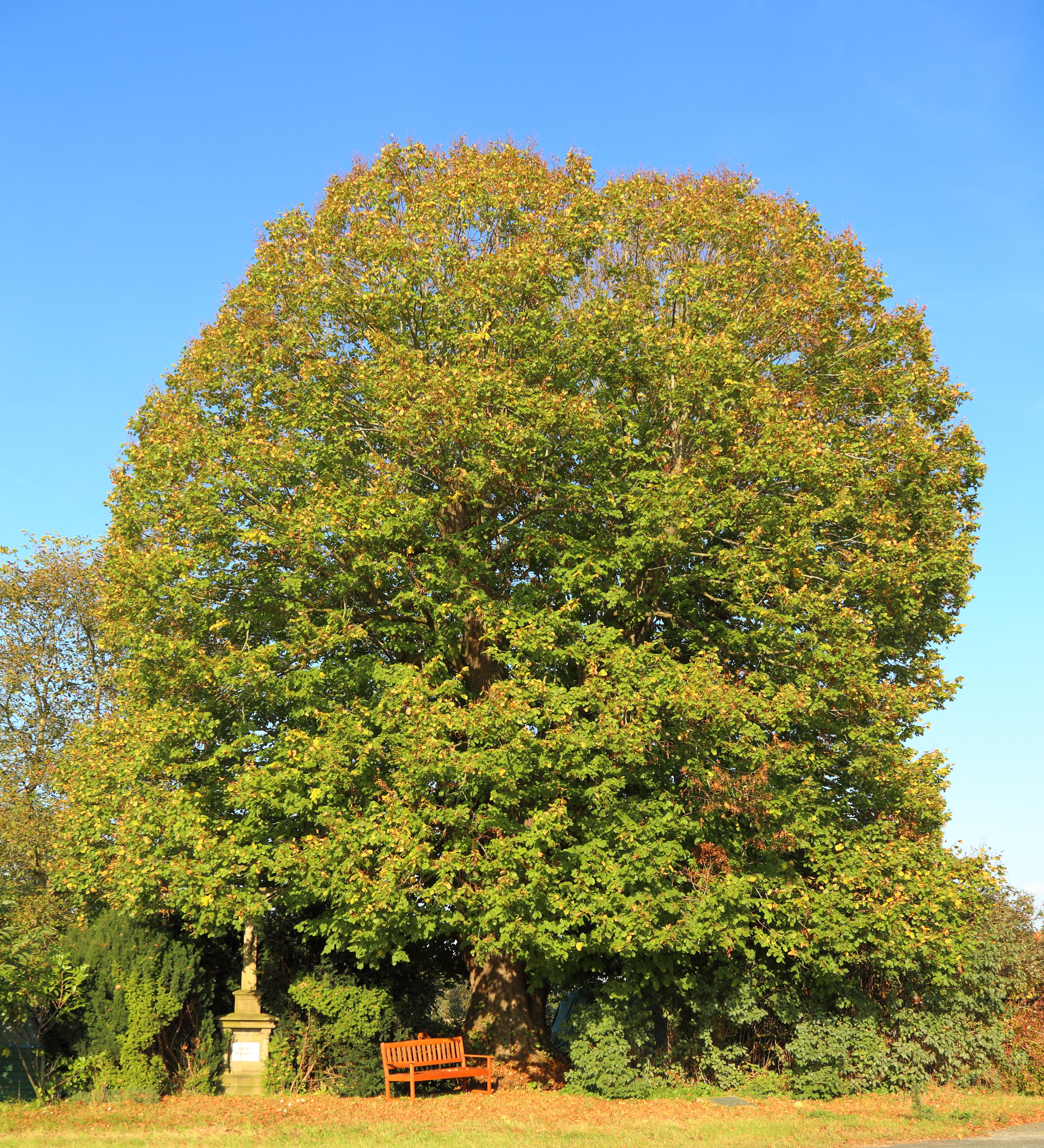 The Hollandgänger-Linde, a Large-leaved Lime (Tilia platyphyllos) in Rheine-Rodde, Kreis Steinfurt, North Rhine-Westphalia, Germany. The tree is of historical importance and a natural monument.